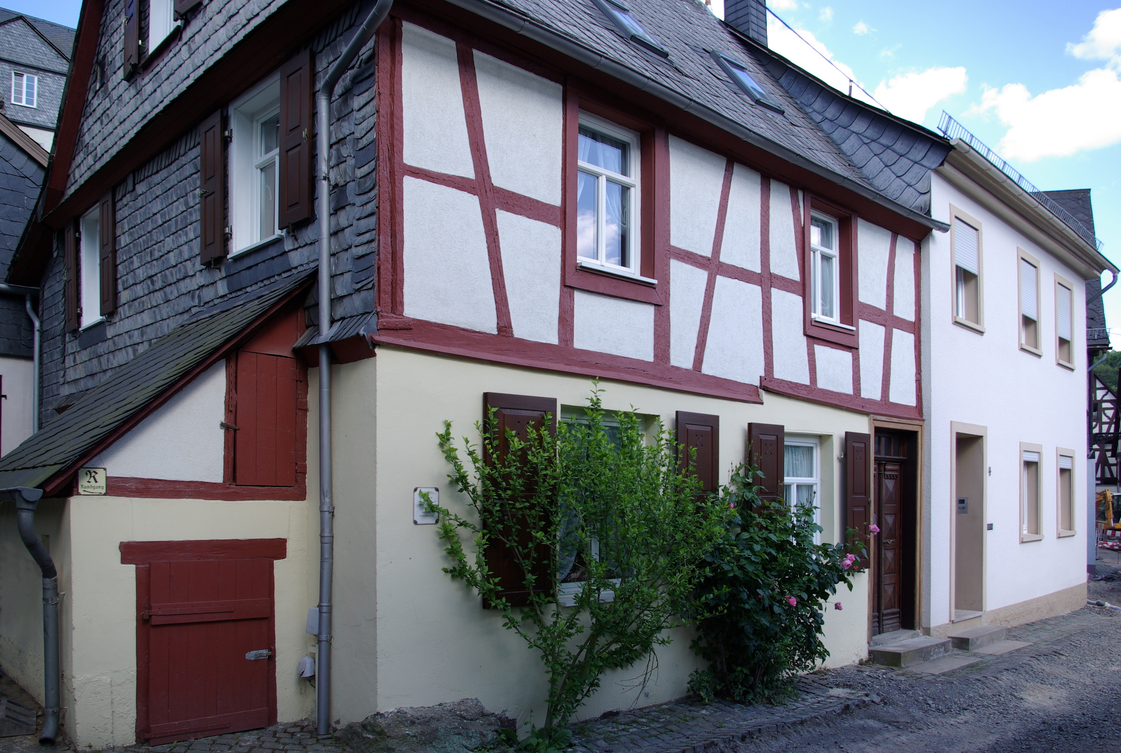 Germany, Herrstein, Timber-frame Building; Pfarrgasse 6